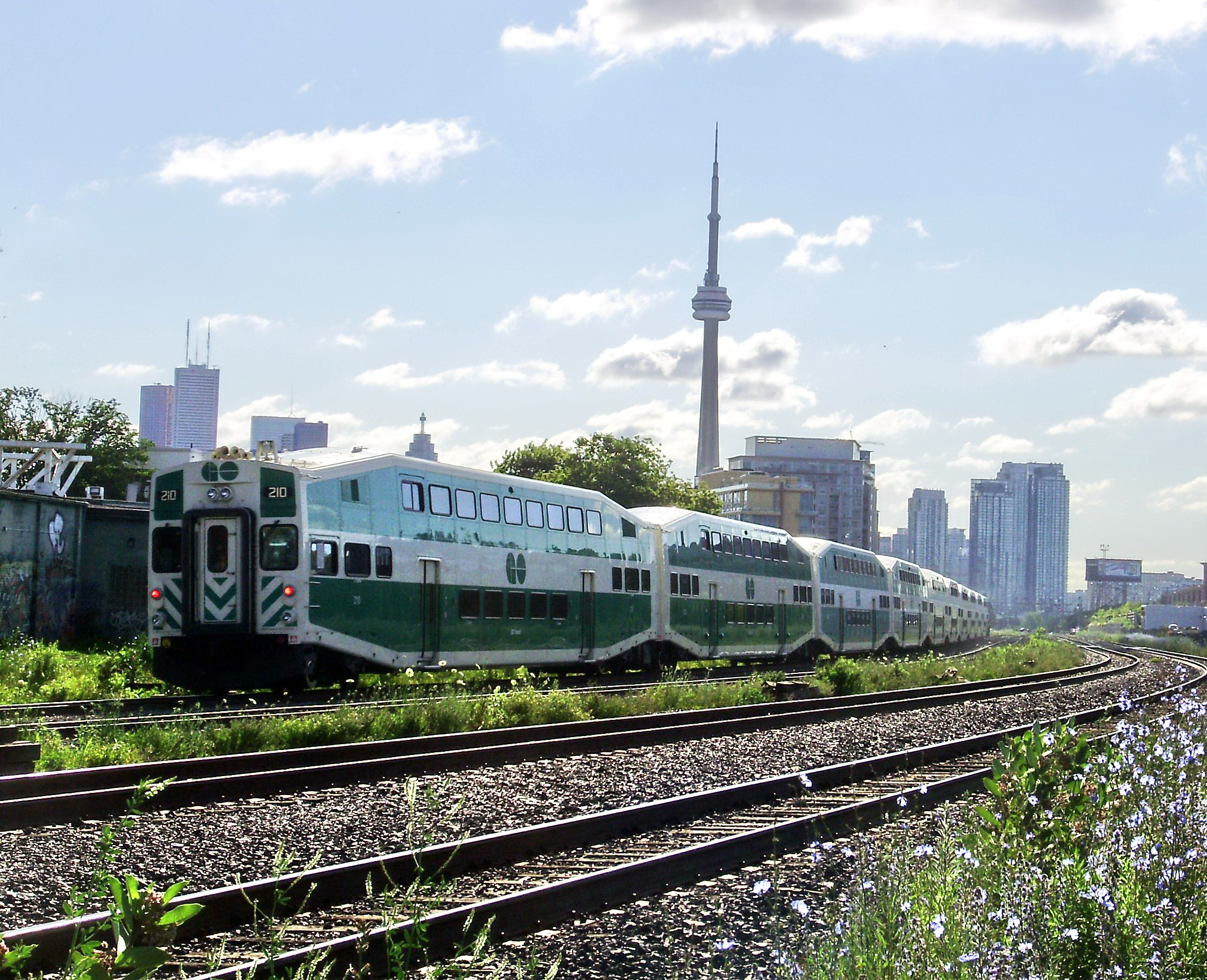 A GO Transit train, serving the Georgetown line, travelling southeast to Union Station in Toronto, Canada. The pictured rail corridor is used by trains on the Georgetown, Barrie, and Milton lines. As the photo was taken, the train was between Queen Street and King Street.